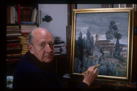 Photograph by Sergio Trujillo Magnenat painting in his studio.